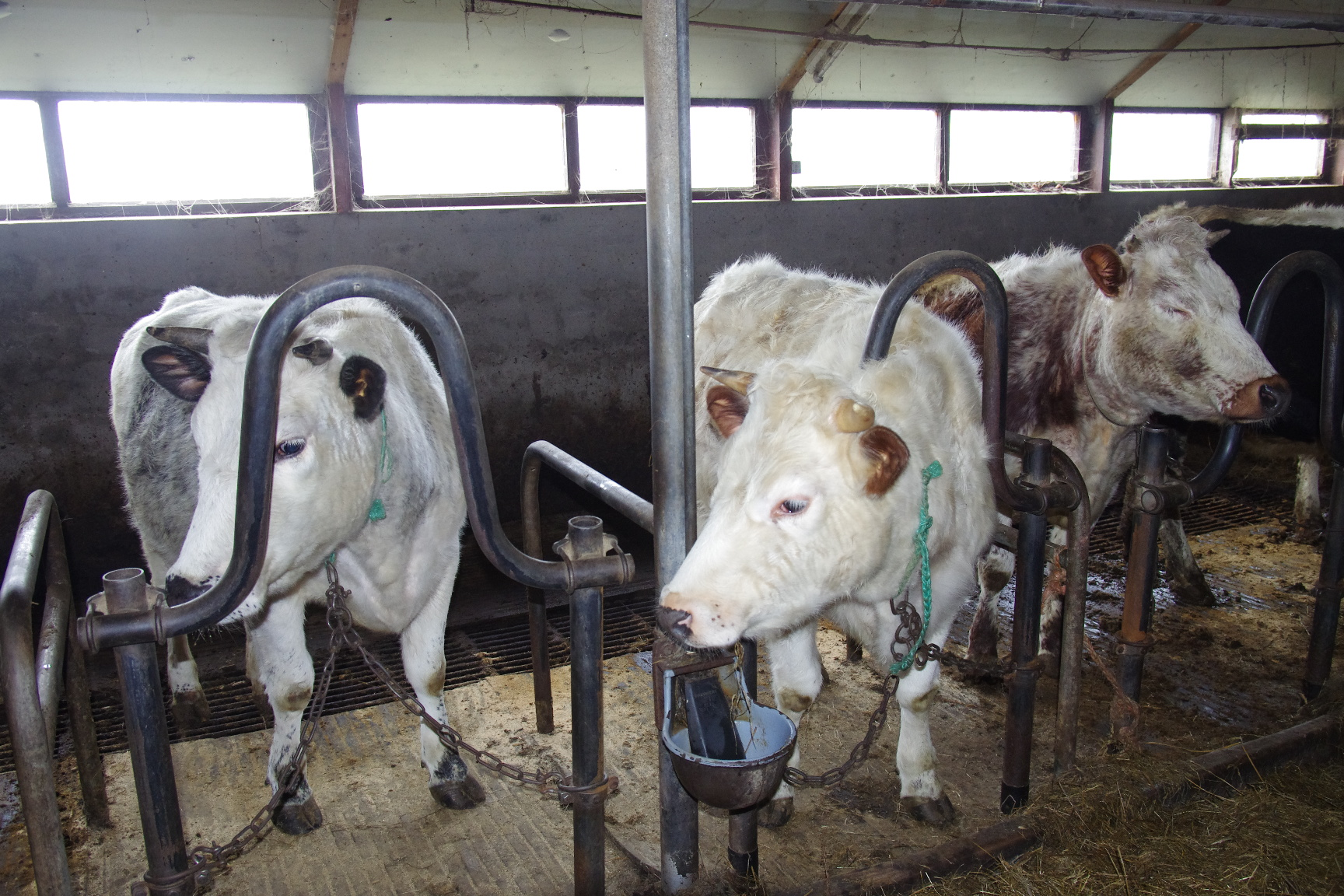 The cows are Witrikken